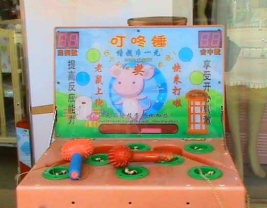 Whac-A-Mole machine for small children in front of children's clothing shop in Hainan, China. Machine playing surface approximately 1/2 metre tall.